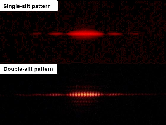 Single slit diffraction and double slit interference